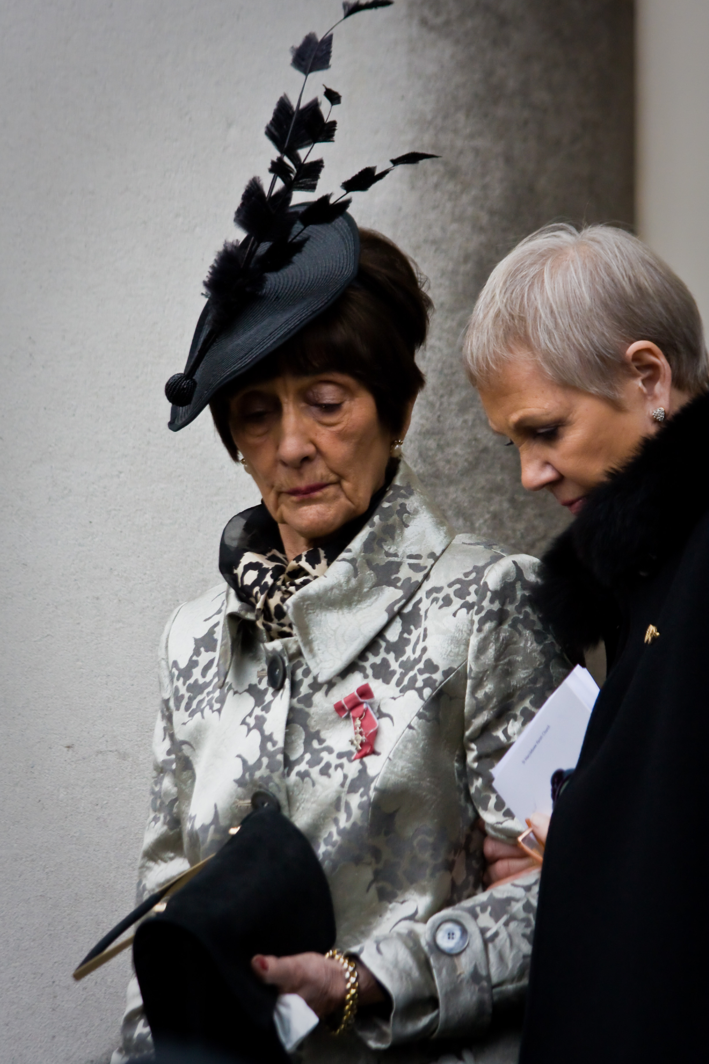 June Brown (left) at the funeral service for actress Wendy Richard at St Marylebone Parish Church.